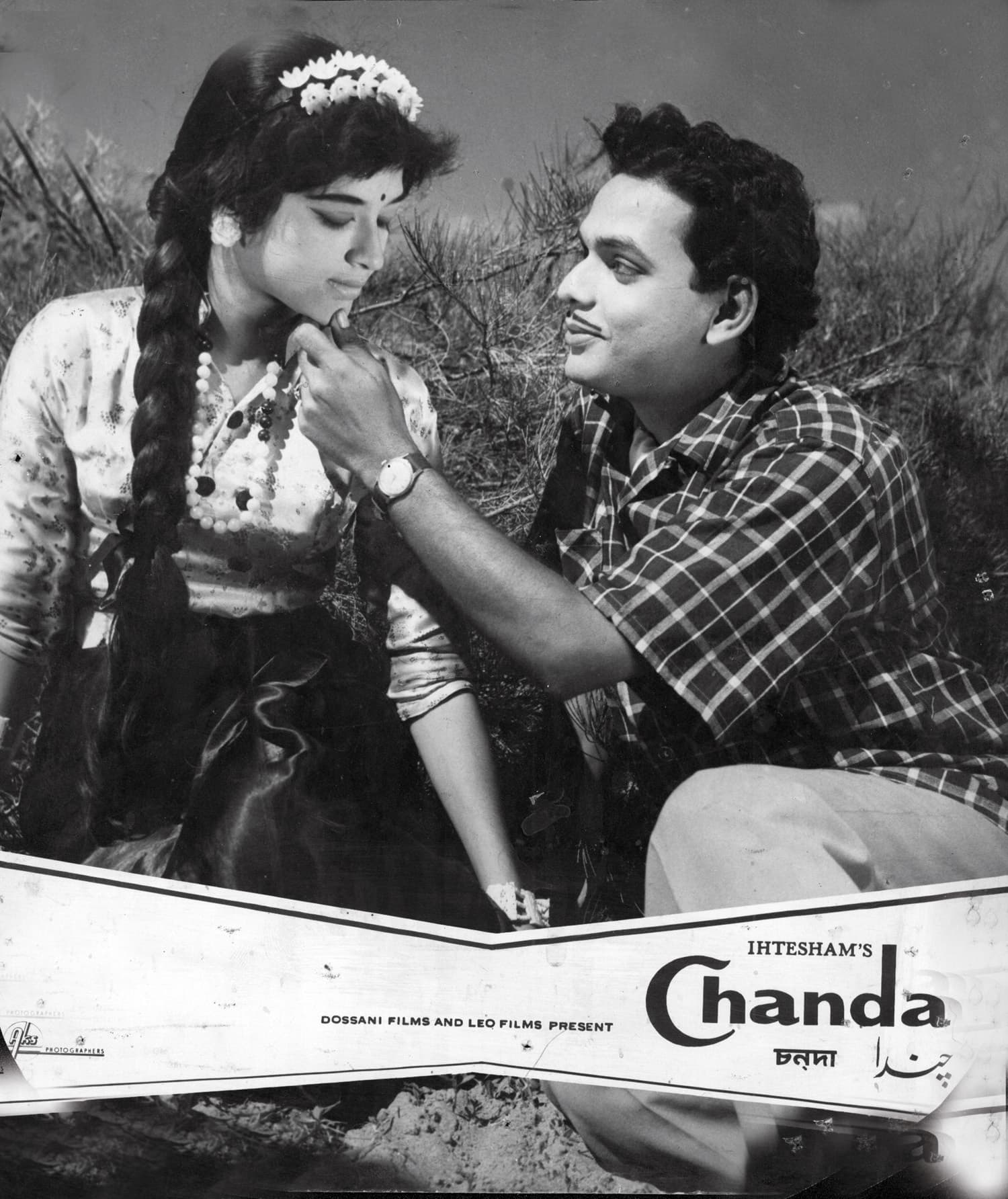 Ehtesham directed the film Chanda (1962) - acted by Shabnam and Rahman